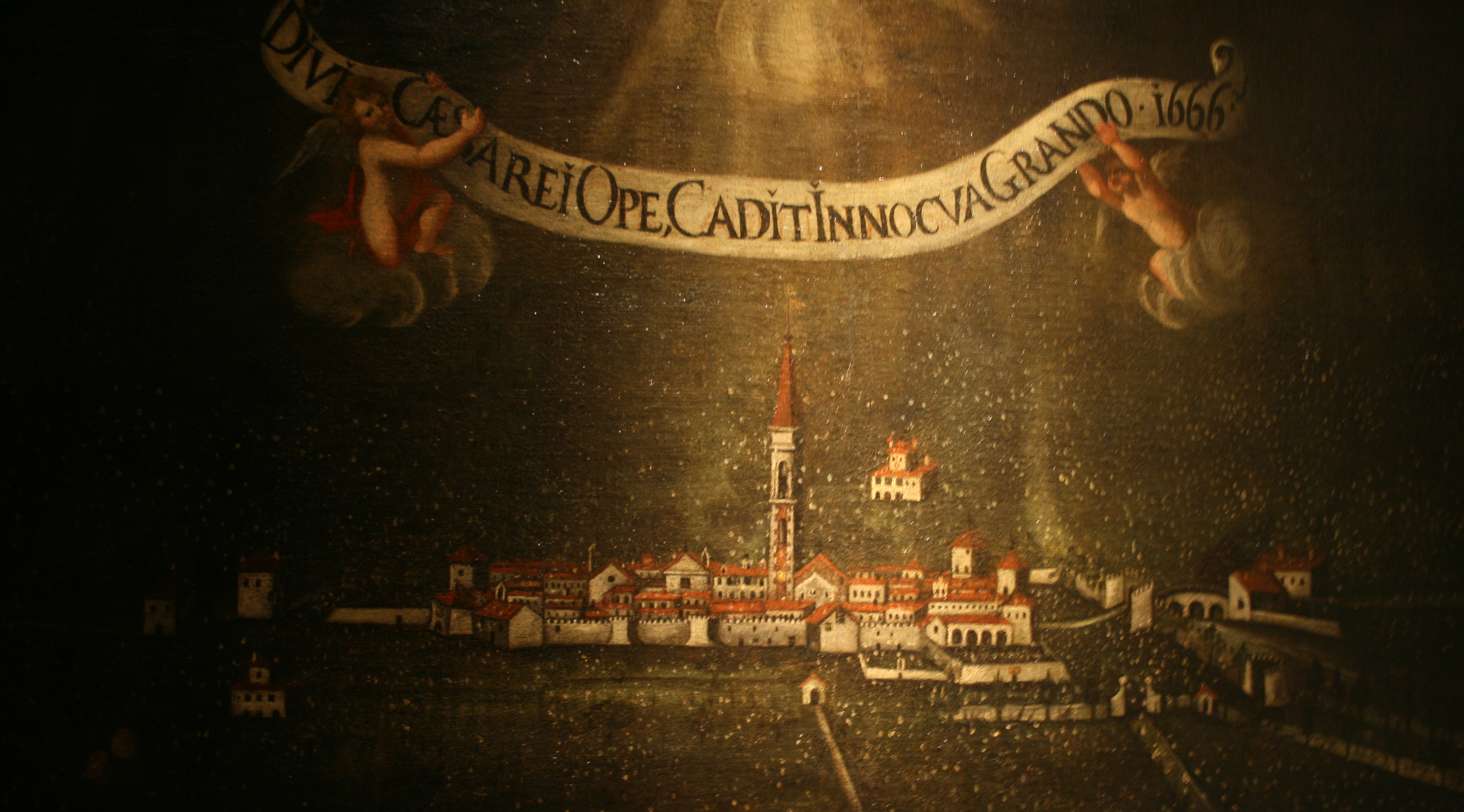 Detail of the painting "Miracle of Saint Cesareo". the saint, traditionally, protected Montevarchi during a tremendous hailstorm on 1666